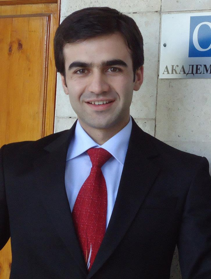 Ahmad Javeed Ahwar at the OSCE Academy, in Bishkek, Kyrgyzstan in 2011.